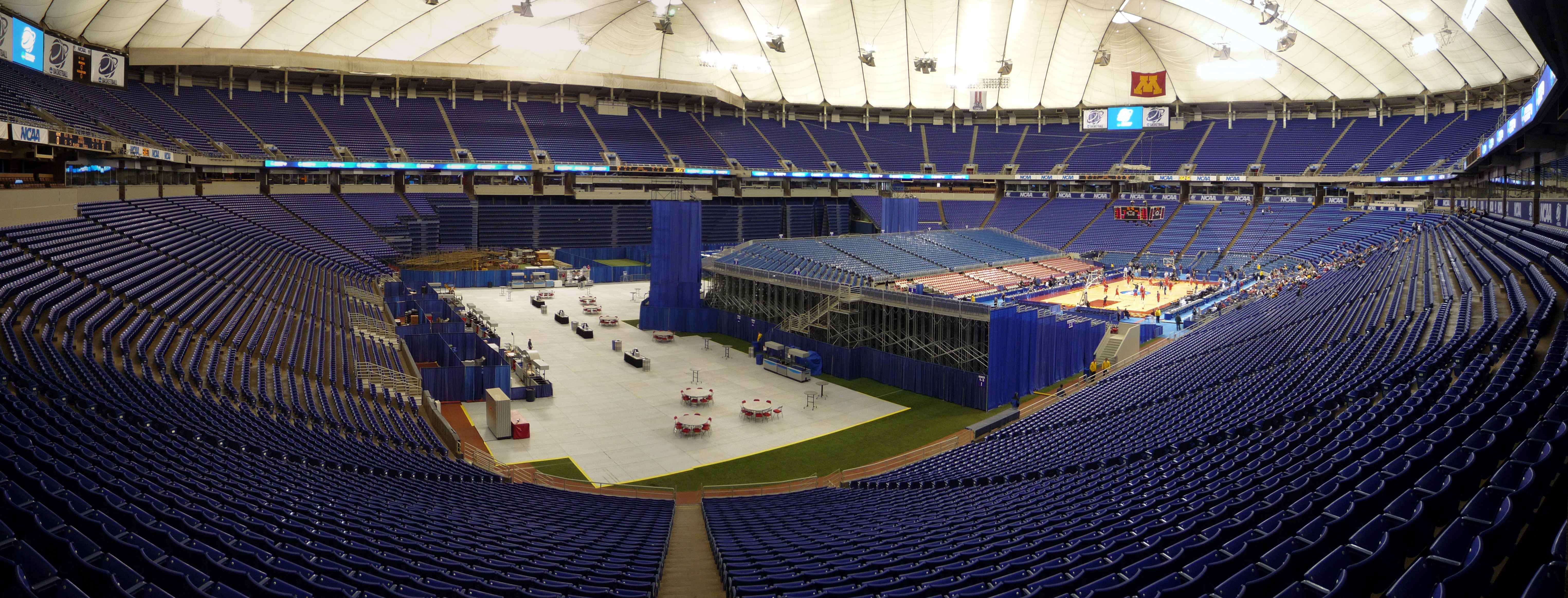 This photo shows the proportions and layout of the Metrodome in Minneapolis, Minnesota, when set up for rounds one and two of the 2009 NCAA Tournament. The stadium normally hosts American football, baseball and occasionally soccer.